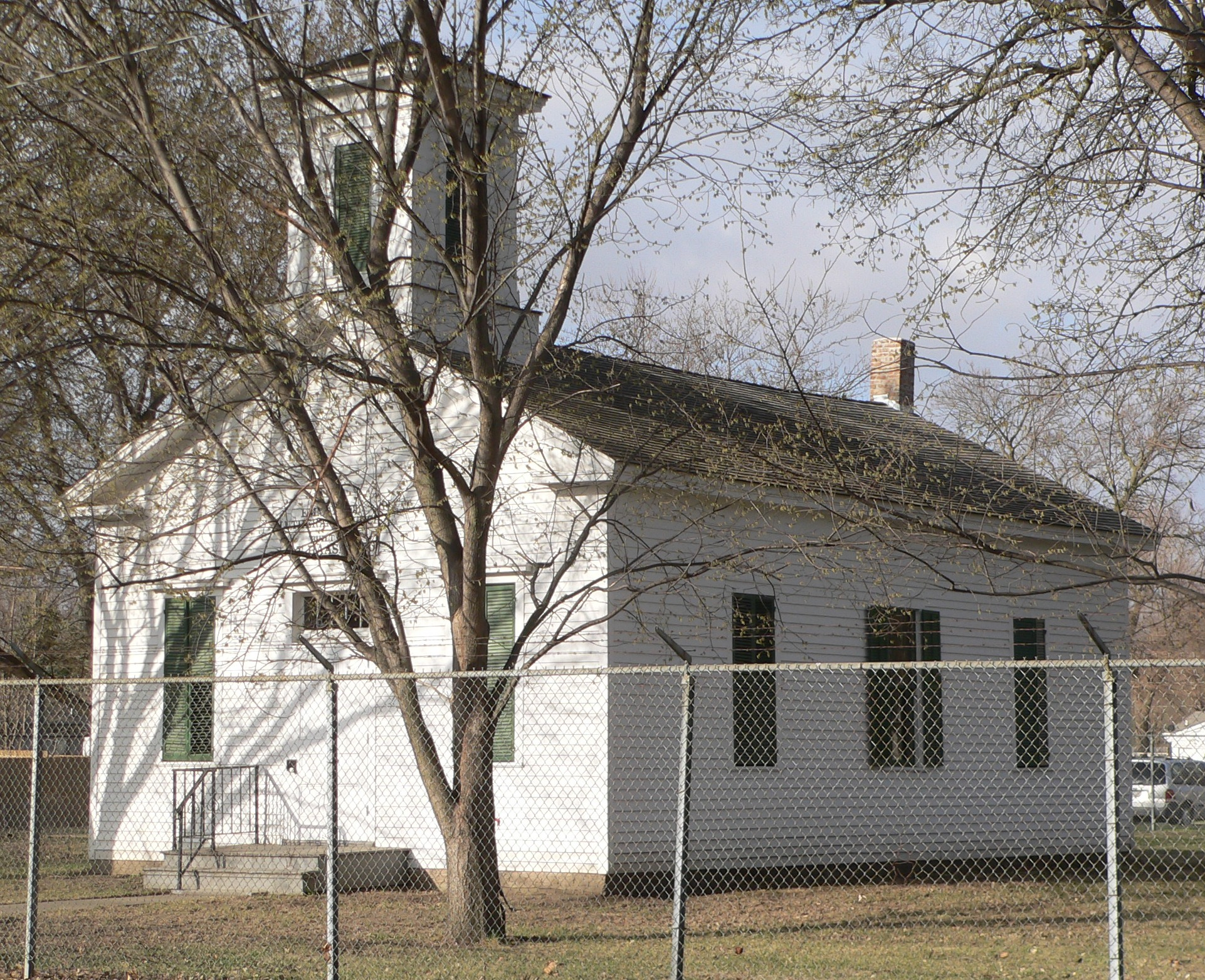 Emmanuel Lutheran Church, located at southwest corner of 15th and Hickory in Dakota City, Nebraska; seen from the northeast.